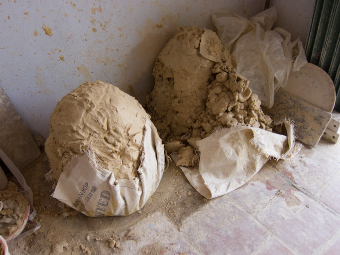 Local(?) clay body